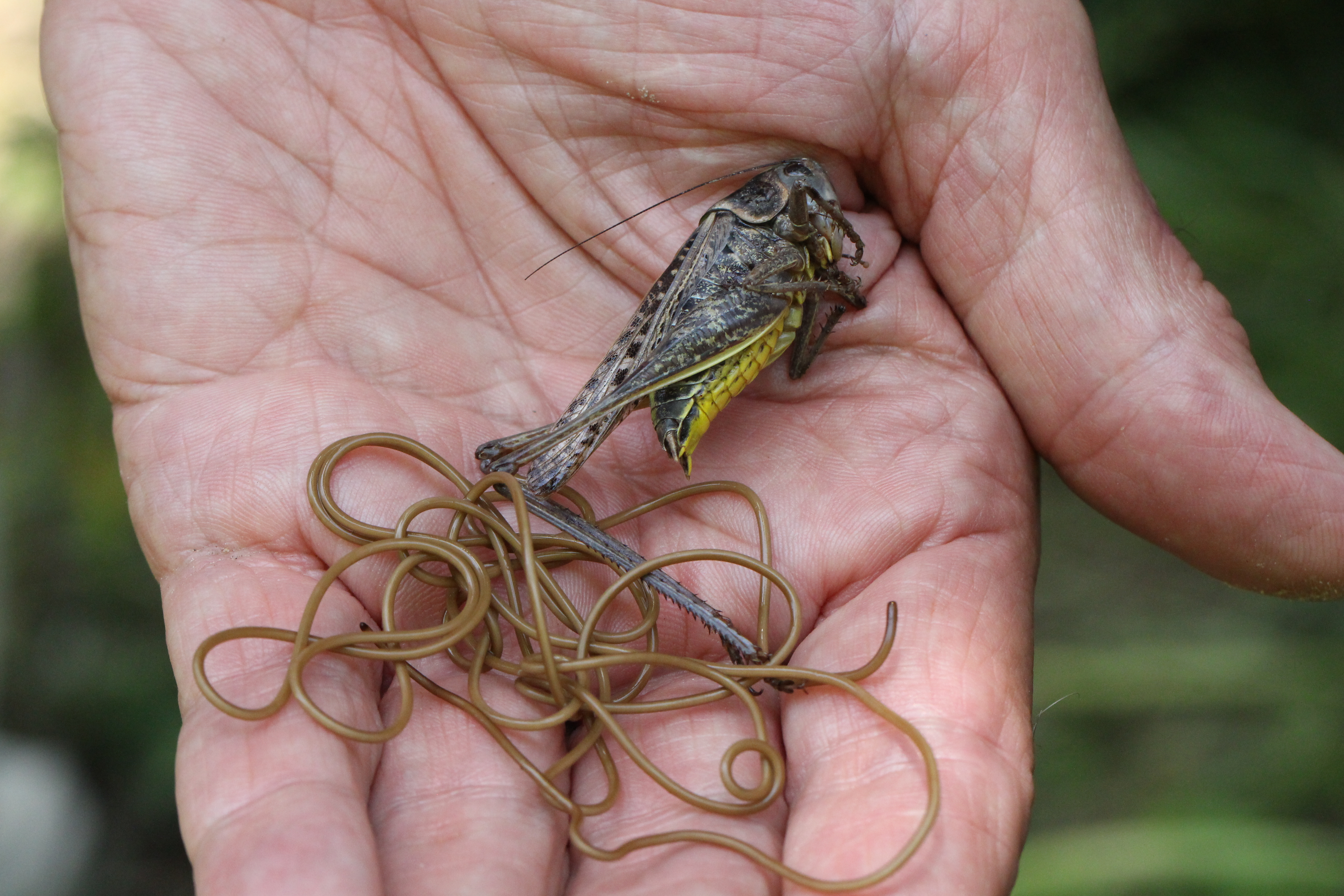 This is the most extraordinary creature. We found it wriggling in a puddle next to this dead bush-cricket. The worm (a Nematomorpha sp) is a parasite that grows inside the host and then somehow gets it to drown itself. It then emerges in the water and looks for a mate. It's not clear to me how the microscopic offspring then find another Orthopteran host. Many thanks to Fred Sherberger for explaining all that in the field and holding it for the camera.